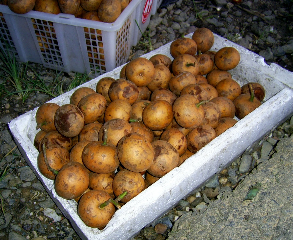 Baccaurea macrocarpa fruits; sold at local market of Muara Lawa, Kutai Barat, East Kalimantan.